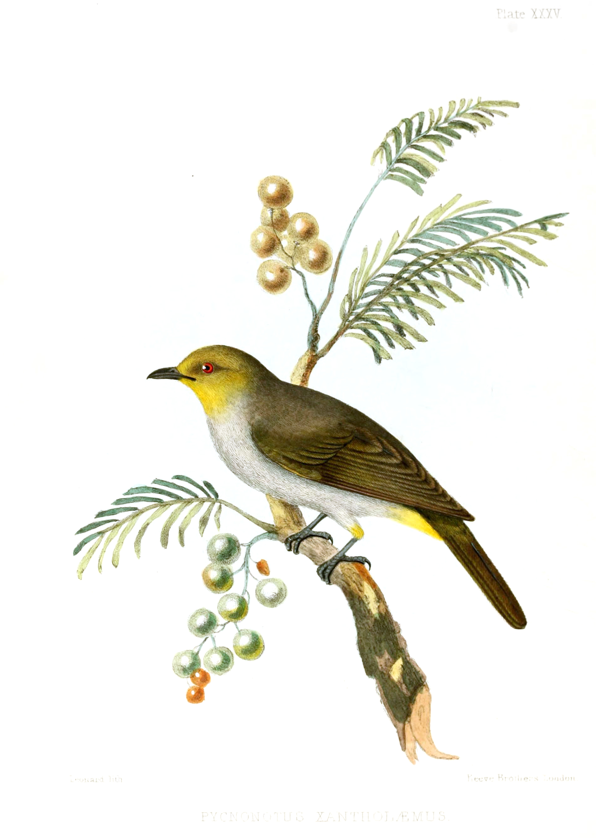 Yellow-throated Bulbul Pycnonotus xantholaemus